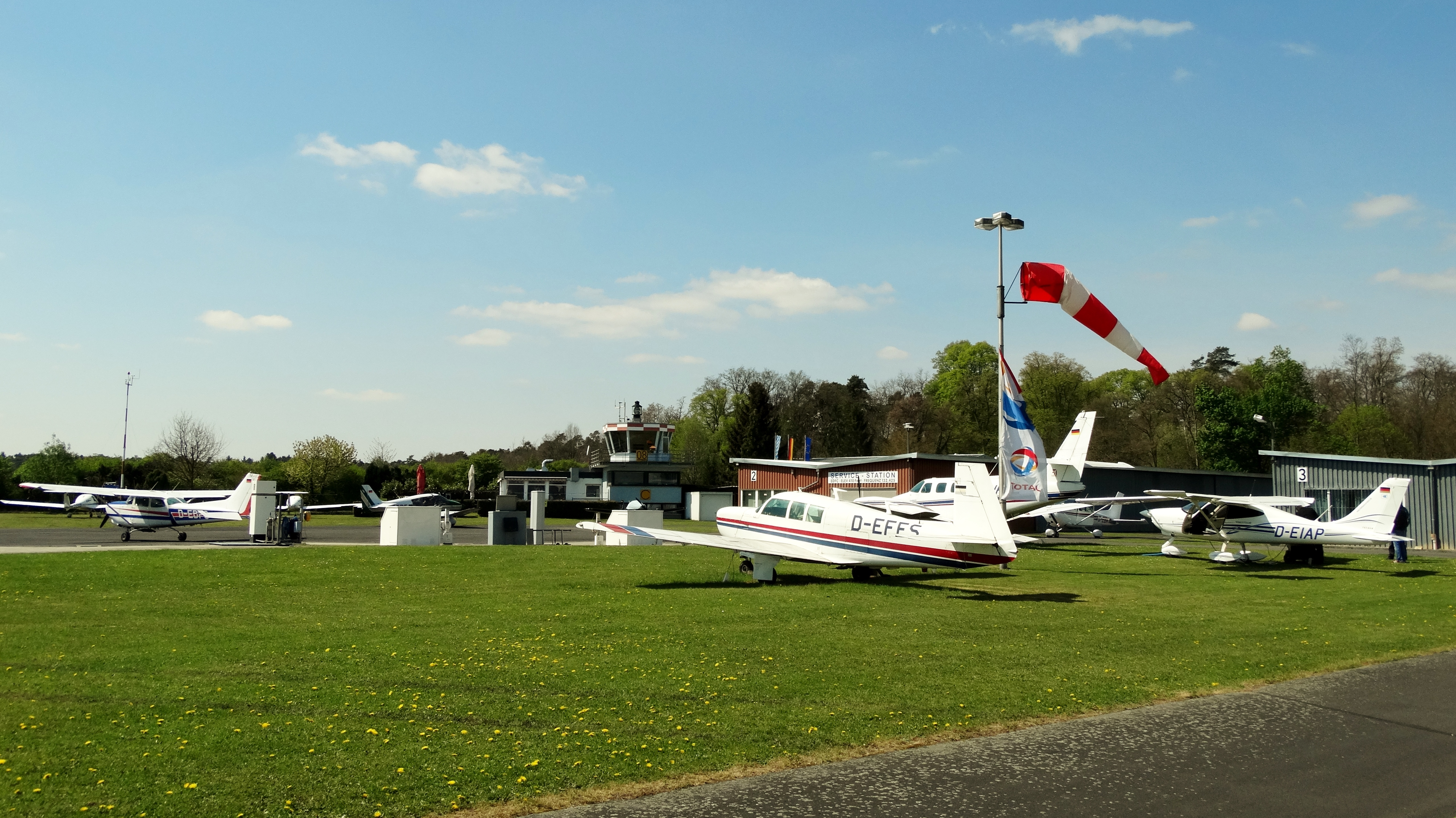 Aschaffenburg Airfield